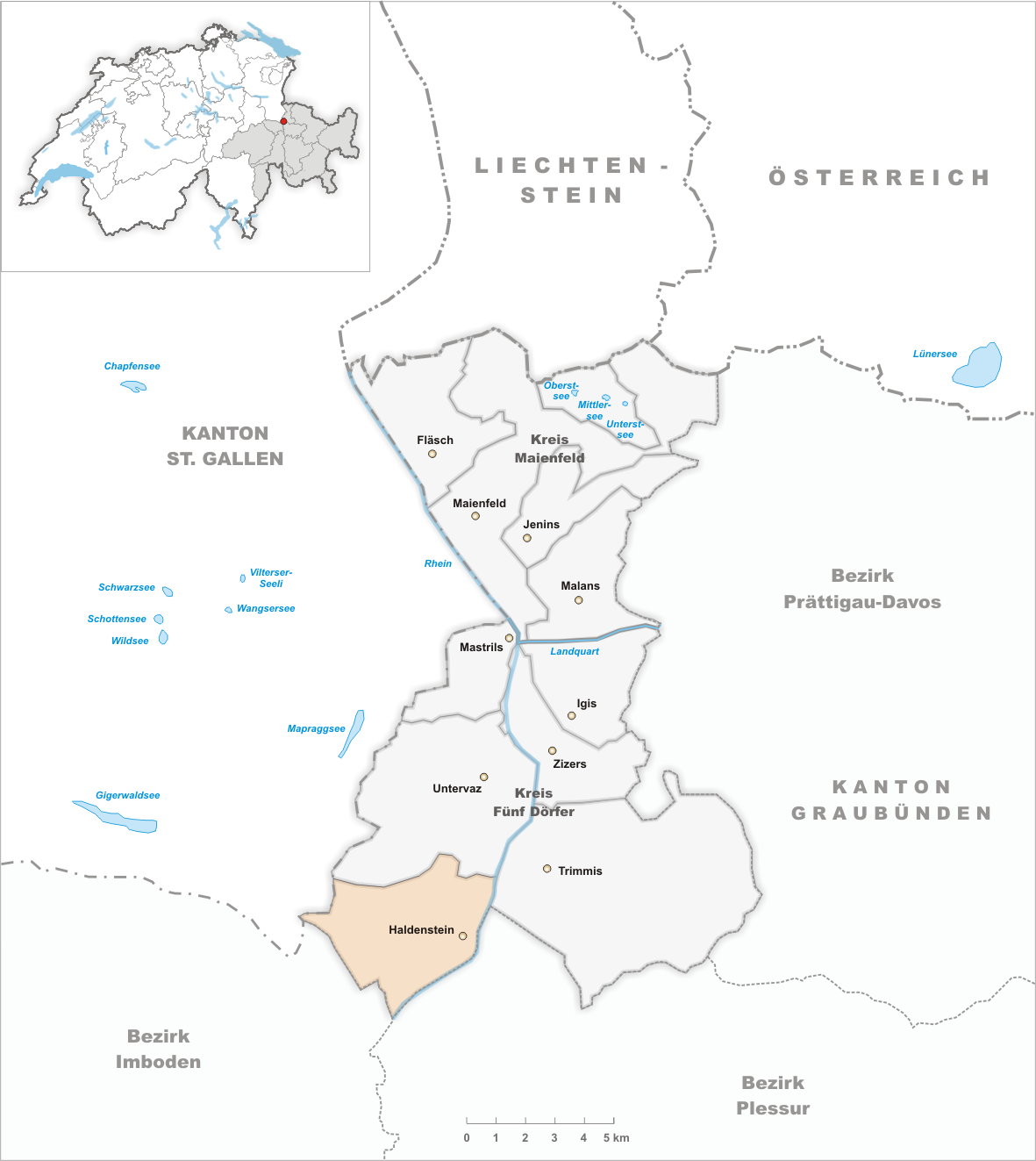 Municipality Haldenstein